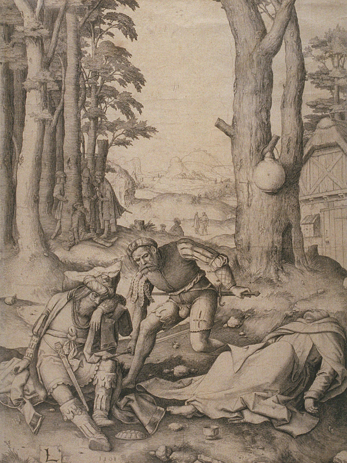 This 1508 engraving by Dutch artist Lucas van Leyden illustrates a legend about Mohammed that circulated in Europe during the medieval era; according to a 1908 New York Times article which reprinted this image, "The famous print of the year, 1508, is an illustration of the story of the Prophet Mohammed and the Monk Sergius. Mohammed, when in company with his friend Sergius, drank too much wine and fell asleep. Before he awakened a soldier killed Sergius and placed the sword in Mohammed's hand. When the prophet wakened the soldier and his companions told him that while drunk he had slain the monk. Therefore Mohammed forbade the drinking of wine by his followers." A high-resolution reproduction of this engraving can be viewed here, and a museum catalog listing giving all its specifics is here; this copy is in the Fine Arts Museums of San Francisco.